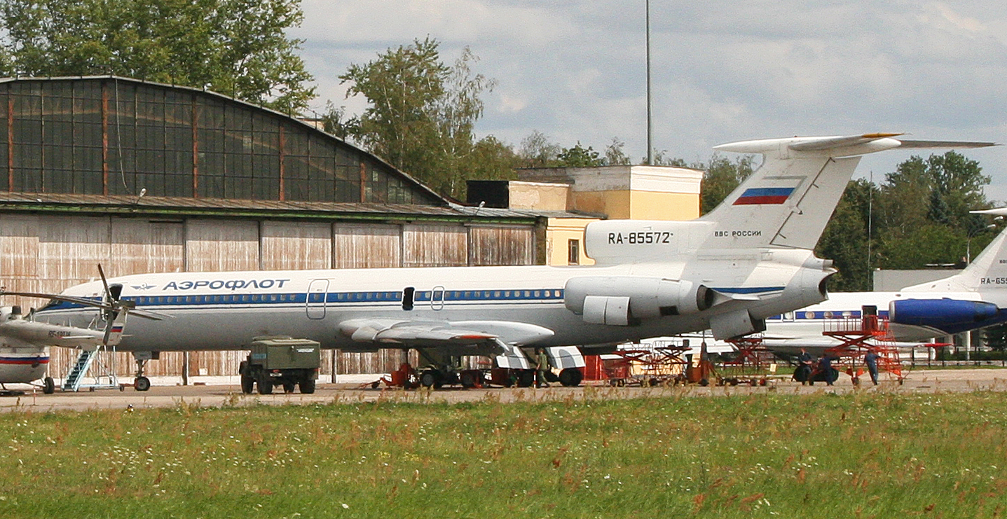 This shot shows Tu-154B-2 'RA-85572' aircraft parked near a maintenance hangar on the Northside of the field.